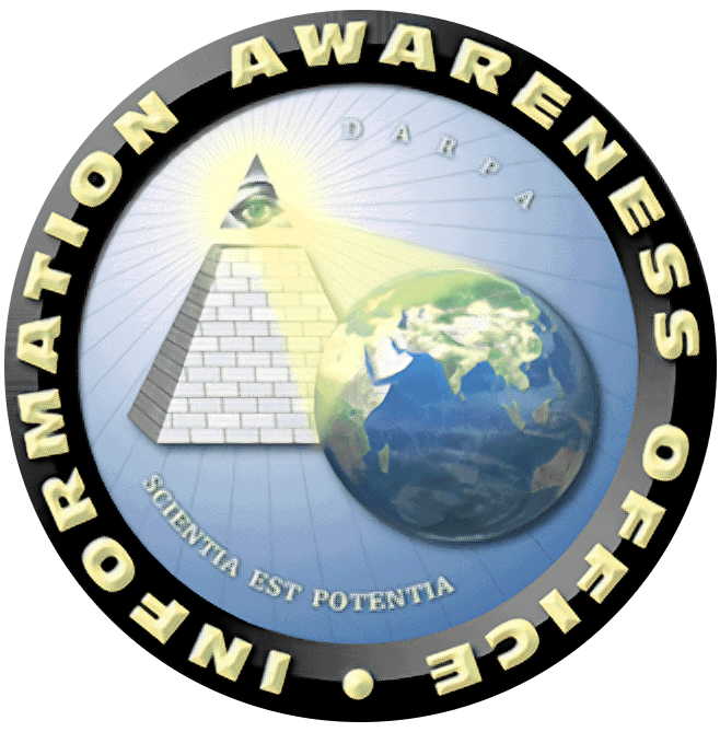 Information Awareness Office logo; )